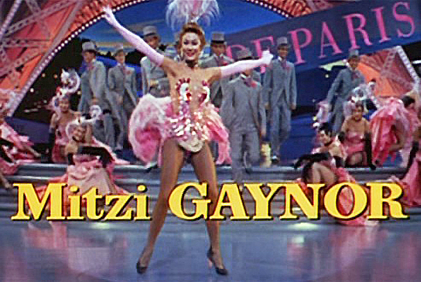 Cropped screenshot of Mitzi Gaynor from the trailer for the film There's No Business Like Show Business.